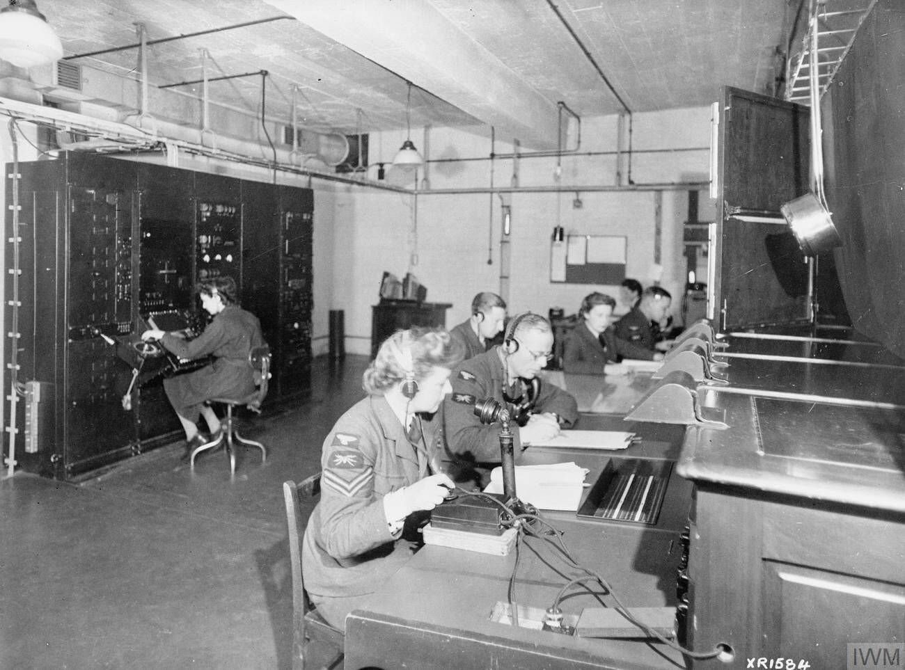 Royal Air Force Radar, 1939-1945 Chain Home: CH receiver room at an East Coast station, showing one of the two RF7 Receivers (left) and the Mark 3 Console (right) in use. This is typical of late-war CH stations, which had been semi-automated through the use of an analog computer referred to as the "fruit machine". On the left, the radar operator's hand is resting on the goniometer control, which allowed her to change the sensitive direction of the receiver in order to determine the bearing of the target. An additional control set an electronic pointer on the display, the "strobe", to lie over a selected target. When both the direction and range were selected, a button was pushed to send this information electrically to the fruit machine. The fruit machine then applied a number of calculations to these measures to correct for known oddities of the receiver system and geography of the local site, then translated these corrected range and direction measures into map grid references using basic trigonometry. Operators on the right would use this information to develop "tracks" for various targets, updating them on the board hanging from the right wall (only the back can be seen here). Telephones were used to send this information to the various control stations in the reporting chain.